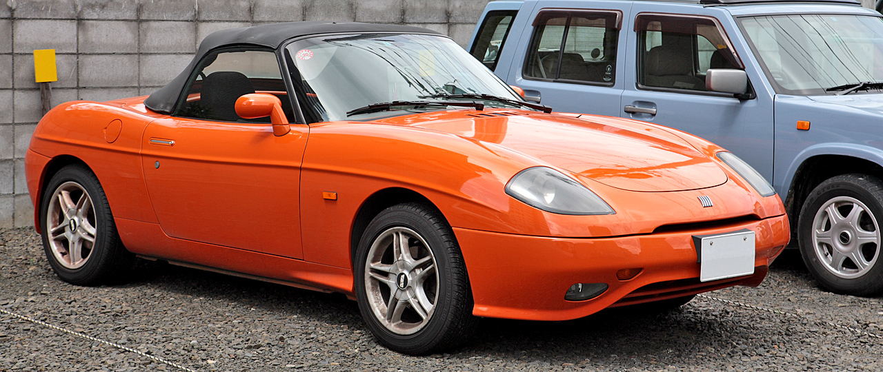 Fiat Barchetta